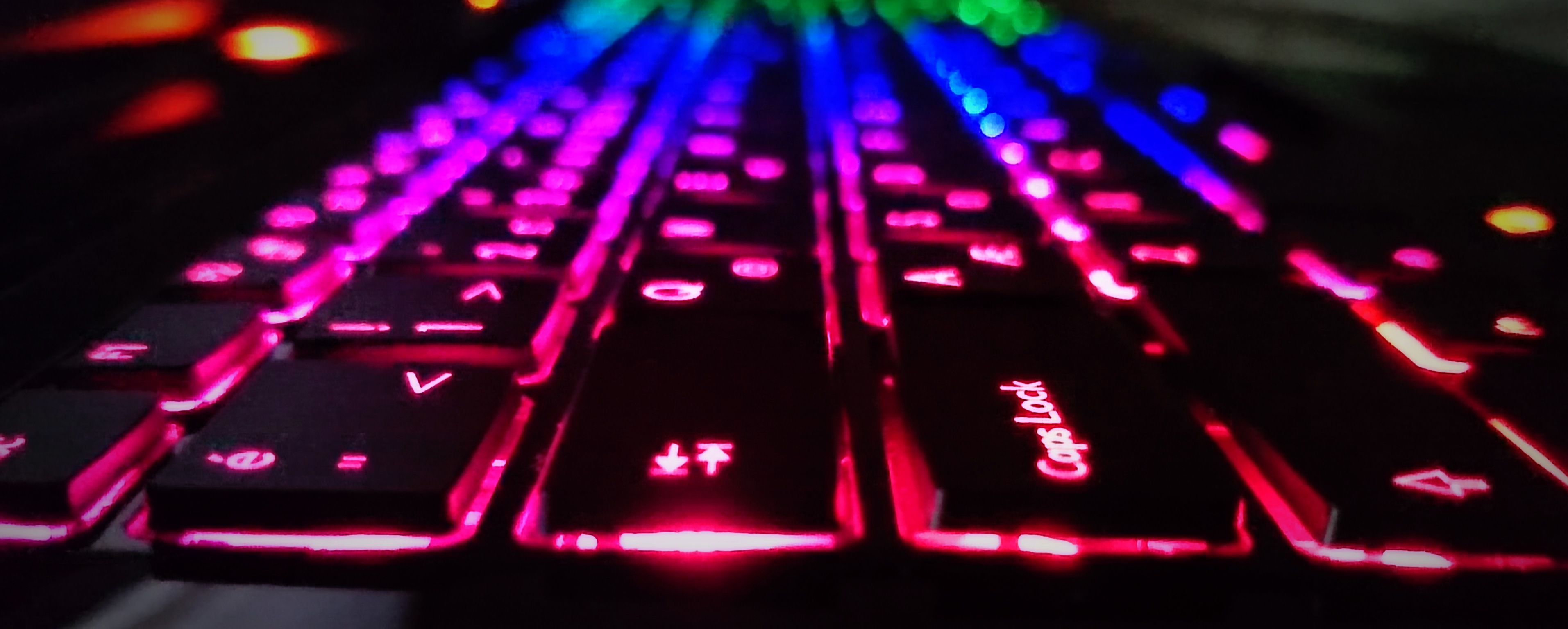 The MSI GT70 0NE 835 laptop features a built-in illuminated keyboard by SteelSeries.